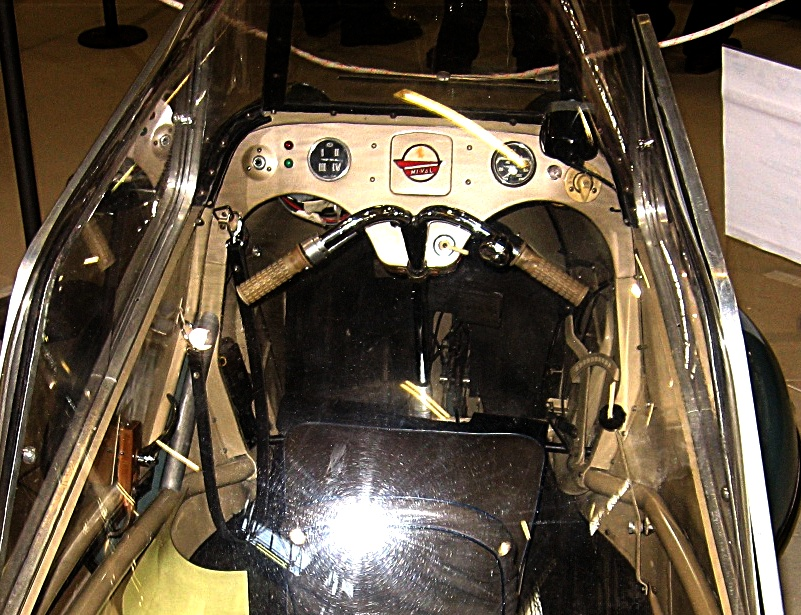 An enhanced close up of Image:Mivalino Interior-view.JPG to show the controls of the Mivalino in more detail.